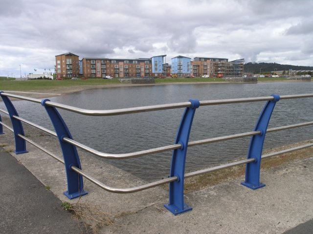 New flats at North Dock, Llanelli The new development at the Millennium Park, sited at Llanelli's old North Dock.